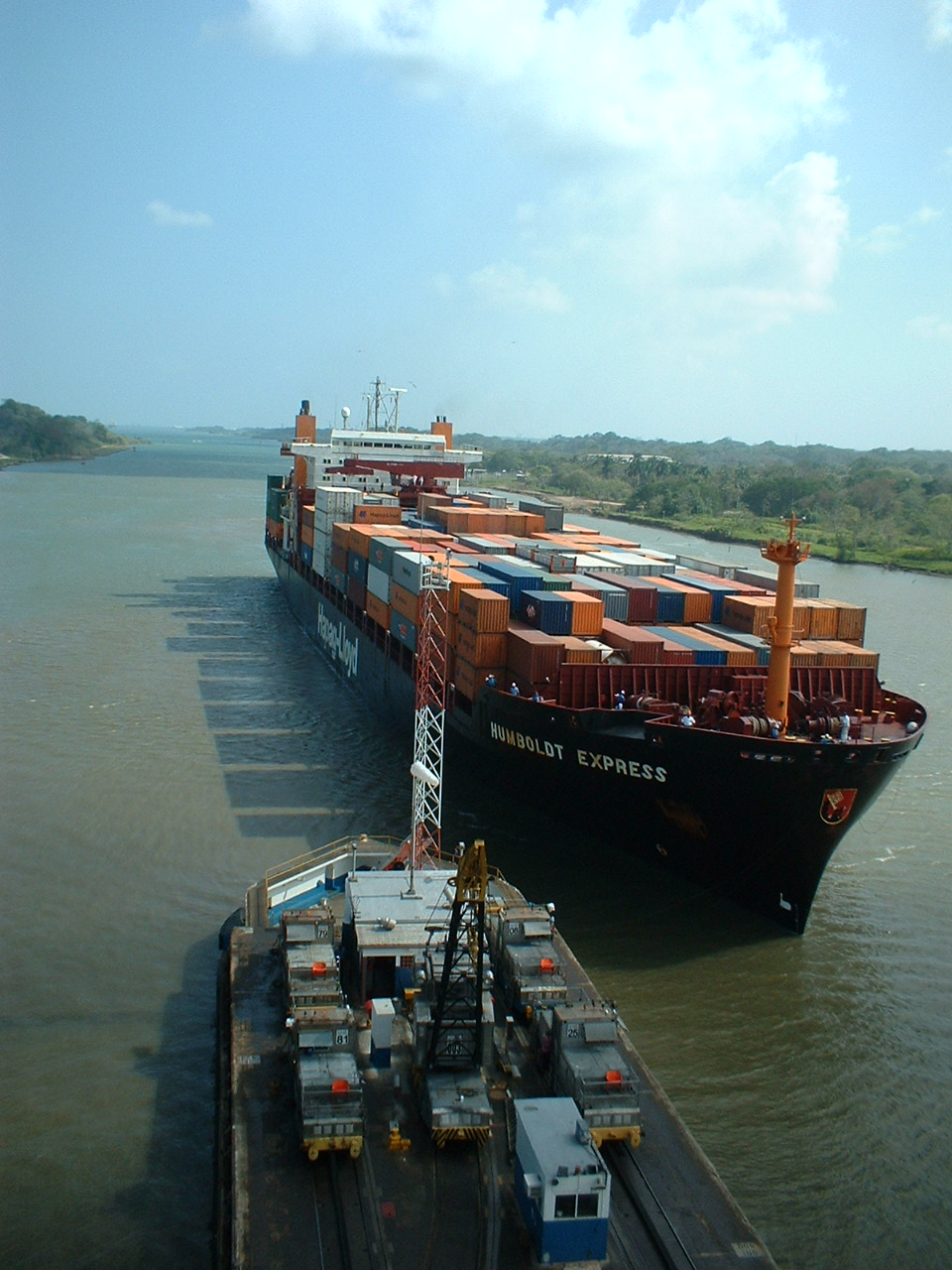 Hapag-Lloyd container vessel "Humboldt Express" in the Panama canal